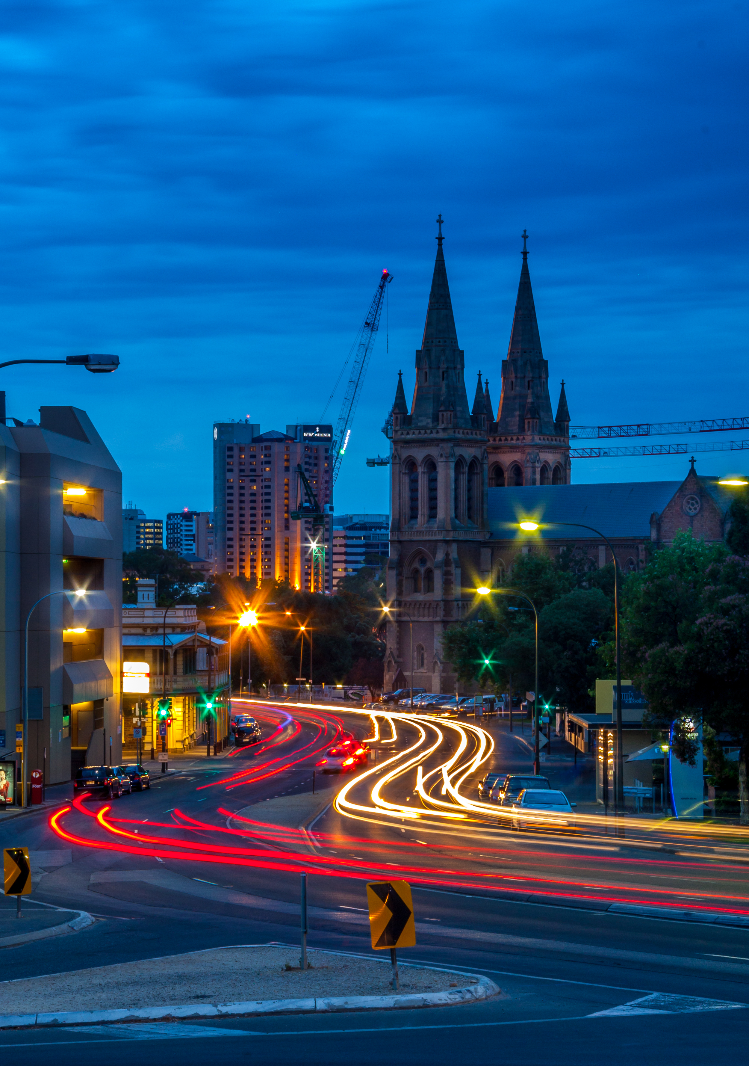 This light trail shot was taken near King William st, Adelaide. King William Street is the part of a major arterial road that traverses the CBD and centre of Adelaide (the capital of South Australia). It was named by the Street Naming Committee on 23 May 1837 after King William IV, the then reigning monarch, who died within a month. King William Street is 132 feet (40 m) wide, and is the widest main street of all the Australian State capital cities